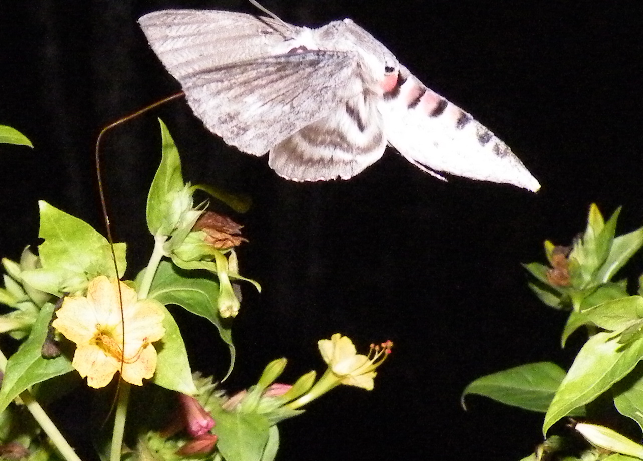 Image of a flying Agrius Convolvoli by night.